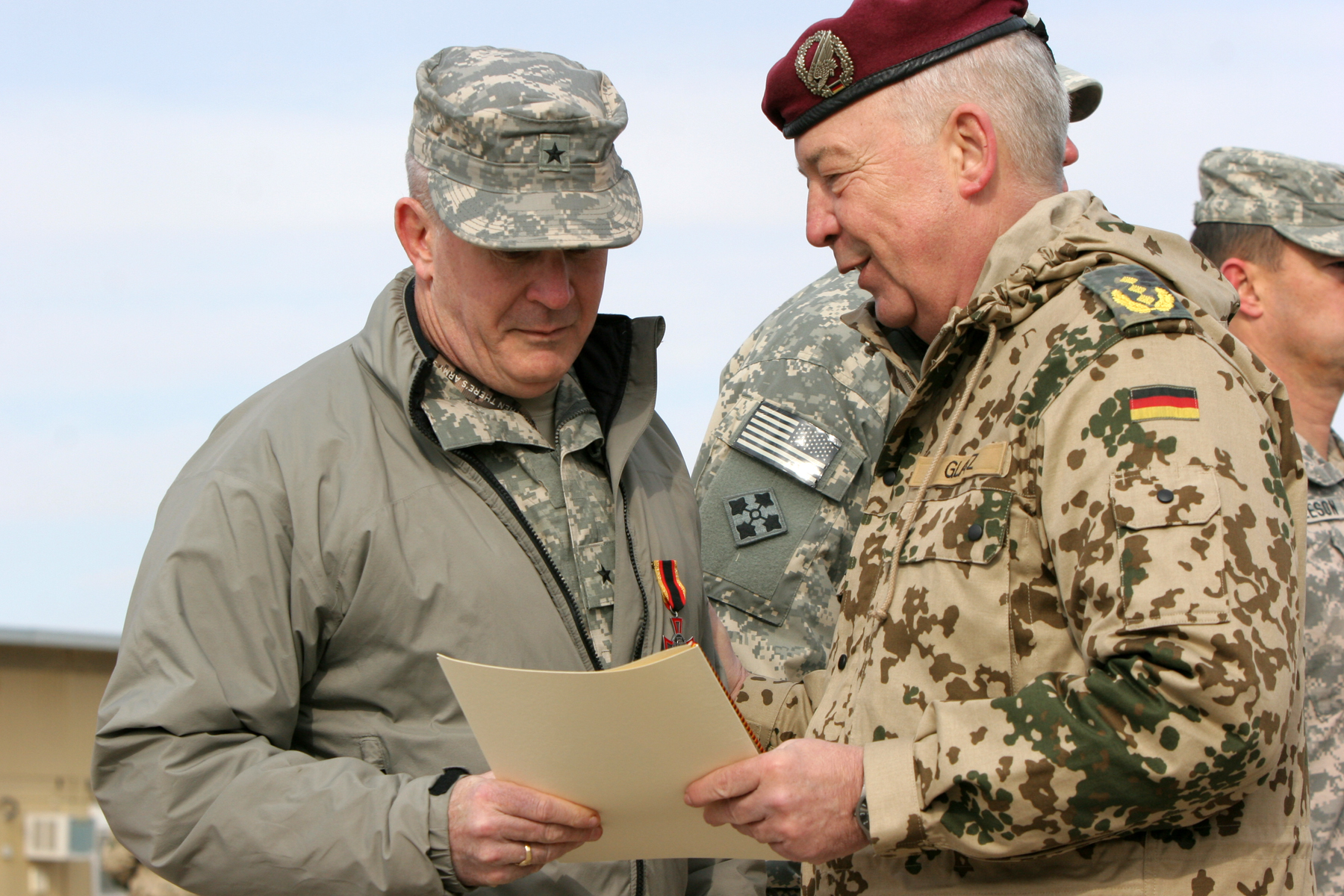 110226-N-9946J-047 MAZAR-E SHARIF, Afghanistan (Feb. 26, 2011) - Commander, German Operations Command German Army Lt. Gen. Rainer Glatz presents Deputy Commander, Regional Command North U.S. Army Brig. Gen. Sean P. Mulholland the Silver Honour Cross of the Bundeswehr for his outstanding meritorious service. (U.S. Navy Photo by Mass Communication Specialist 2nd Class Jason Johnston/RELEASED)